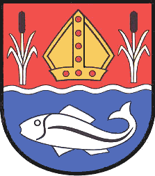 Coat of Arms of Schachtebich